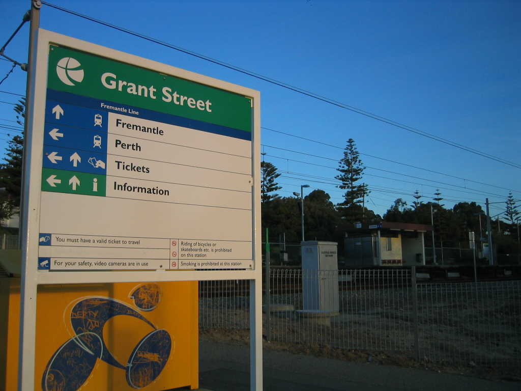 Transperth Grant Street Train Station